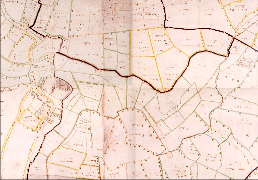 Карта Джеймса Риба 1692 року